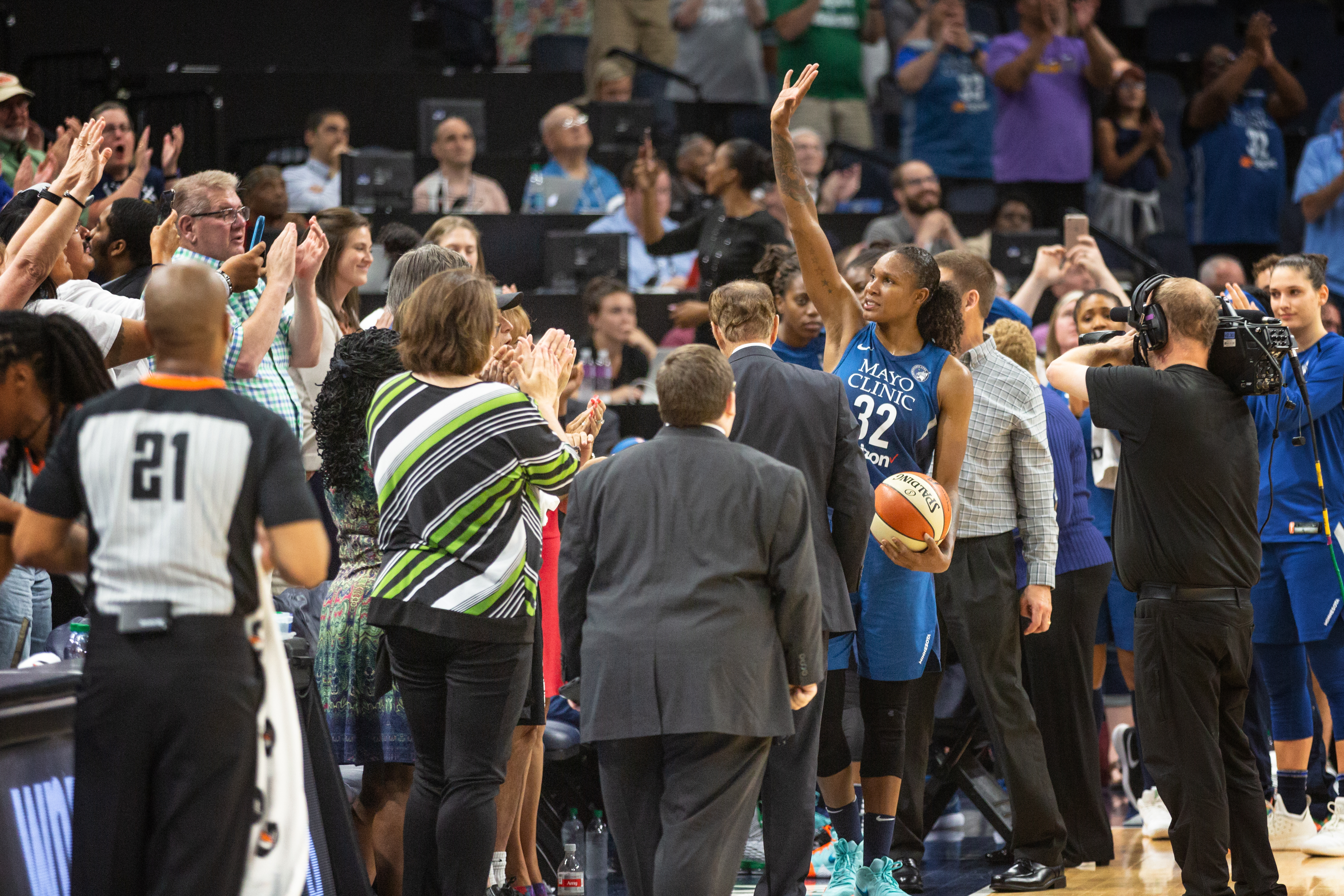 Rebekkah Brunson acknowledges the crowd at Target Center after setting the WNBA record for rebounds at the Minnesota Lynx vs Los Angeles Sparks game at Target Center, the Lynx won the game 83-72. By the end of the game, Brunson had a total of 3318 career rebounds.